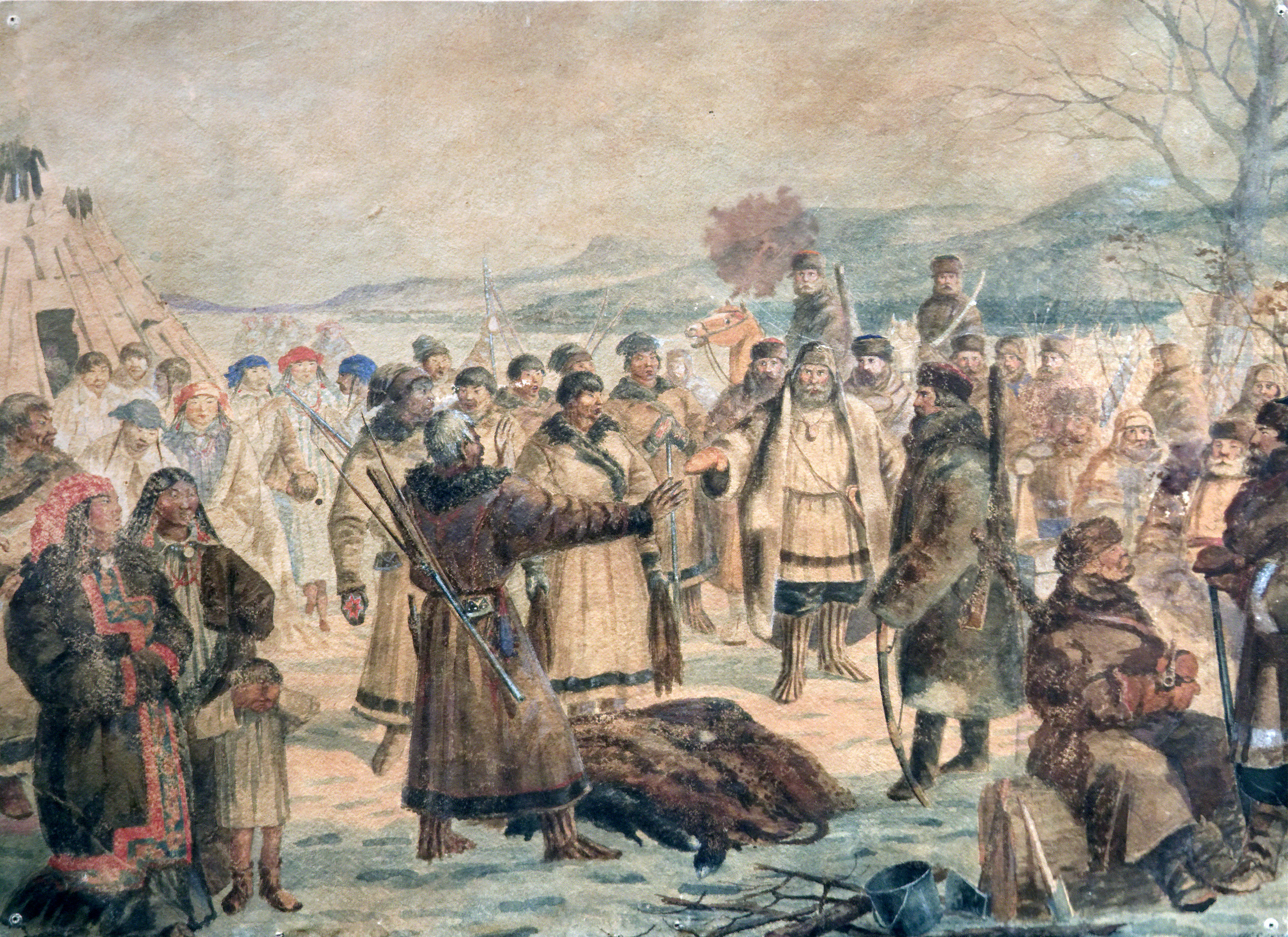 The cossacks of the Yeniseysk Governorate collecting yasak. 19th century watercolor by an unknown painter.